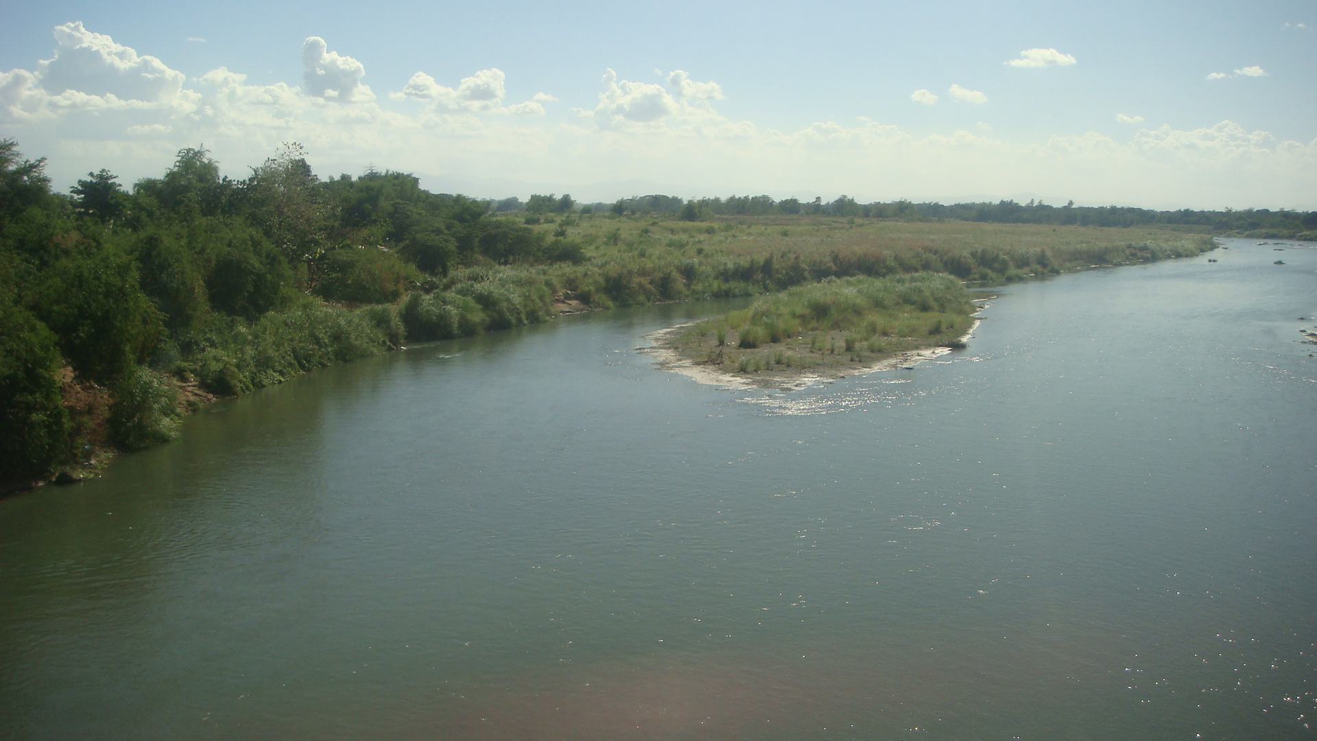 View of Agno RIver from Urdaneta bridge